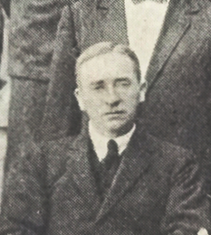 Entomologists at the first meeting in Pusa 1923 Fifth row (standing) Mukerjee, G.D.Ojha, Bashir, Torabaz Khan, D.P. Singh Fourth row (standing) M.O.T. Iyengar, R.N. Singh, S. Sultan Ahmad, G.D. Misra, Sharma, Ahmad Mujtaba, Mohammad Shaffi Third row (standing) Rao Sahib Rama Chandra Rao, D Naoroji, G.R.Dutt, Rai Bahadur C.S. Misra, SCJ Bennett (baceriologist, Muktesar), P.V. Isaac, T.M. Timoney, Harchand Singh, S.K.Sen Second row (seated) Mr M. Afzal Husain, Major RWG Hingston, Dr C F C Beeson, T. Bainbrigge Fletcher, P.B. Richards, J.T. Edwards, Major J.A. Sinton First row (seated) Rai Sahib PN Das, B B Bose, Ram Saran, R.V. Pillai, M.B. Menon, V.R. Phadke (veterinary college, Bombay)